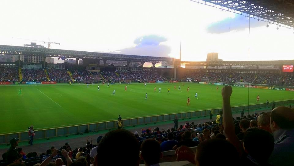 Armenia vs Portugal, 13 June 2015, V. Sargsyan Rep. Stad. Yerevan